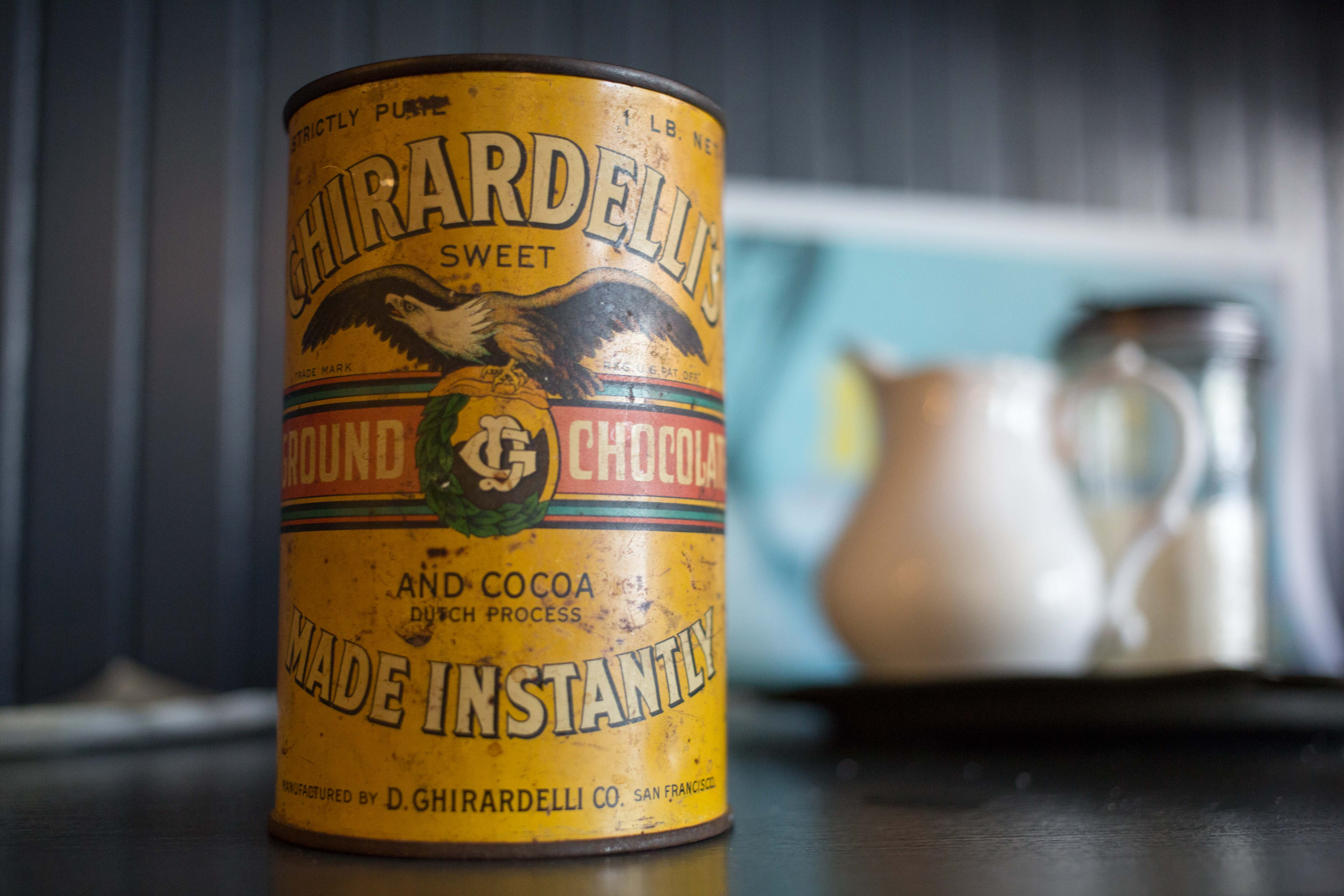 Ghirardelli Chocolate can photographed March 23 2013